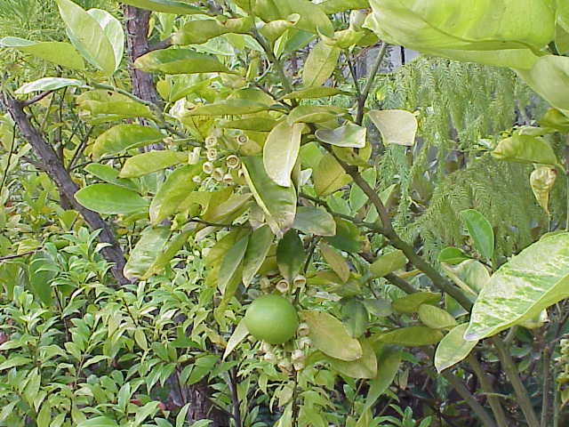 Species: Citrus maxima Family: Rutaceae Image No. 2